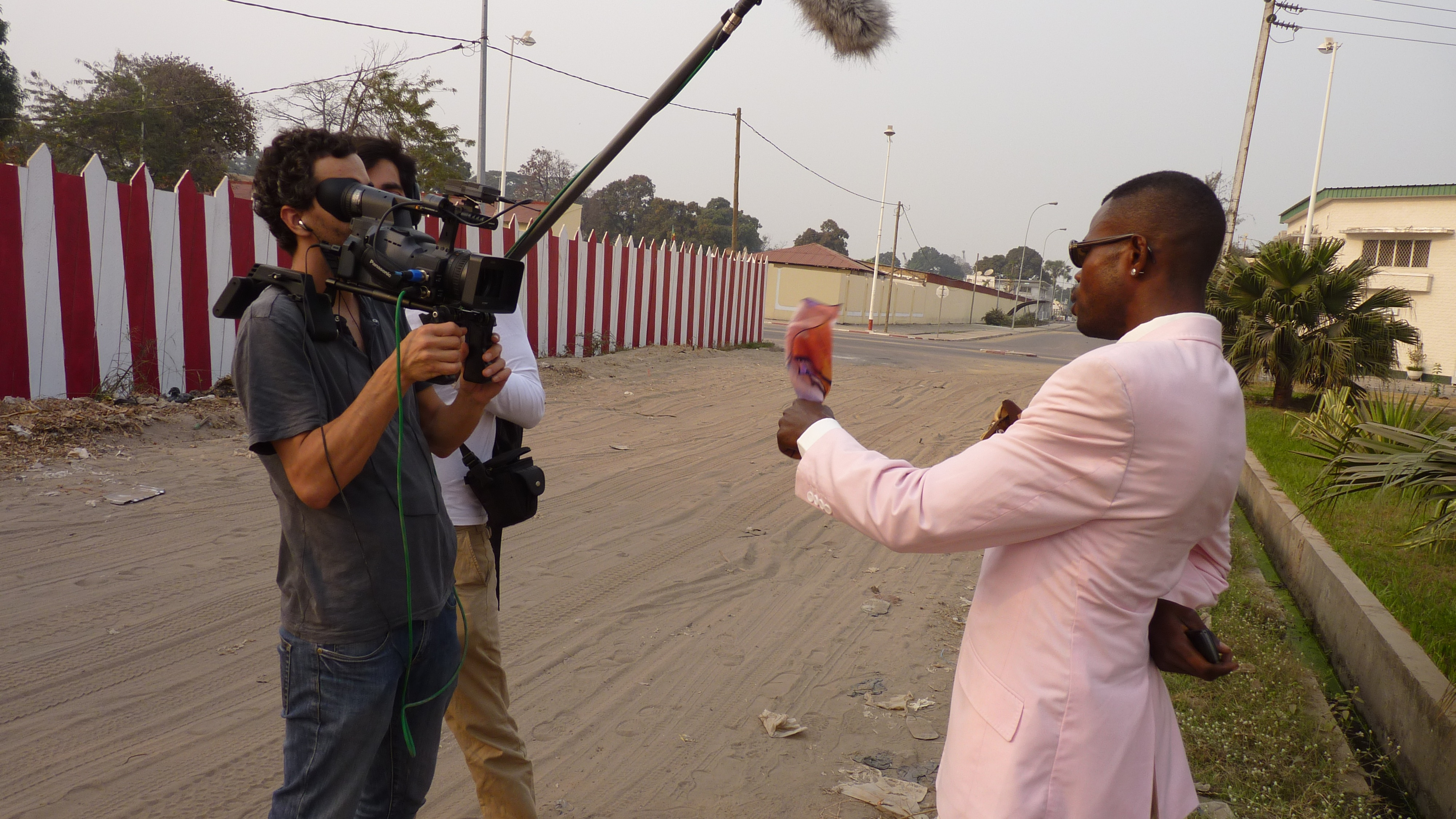 Making of Dimanche à Brazzaville